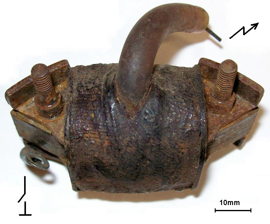 Magneto ingnition coil; left termination for the contact breaker, thick insulated cable for connection to the spark plug. The third terminal of the tapped coil is the ground, it is connected with the iron core.